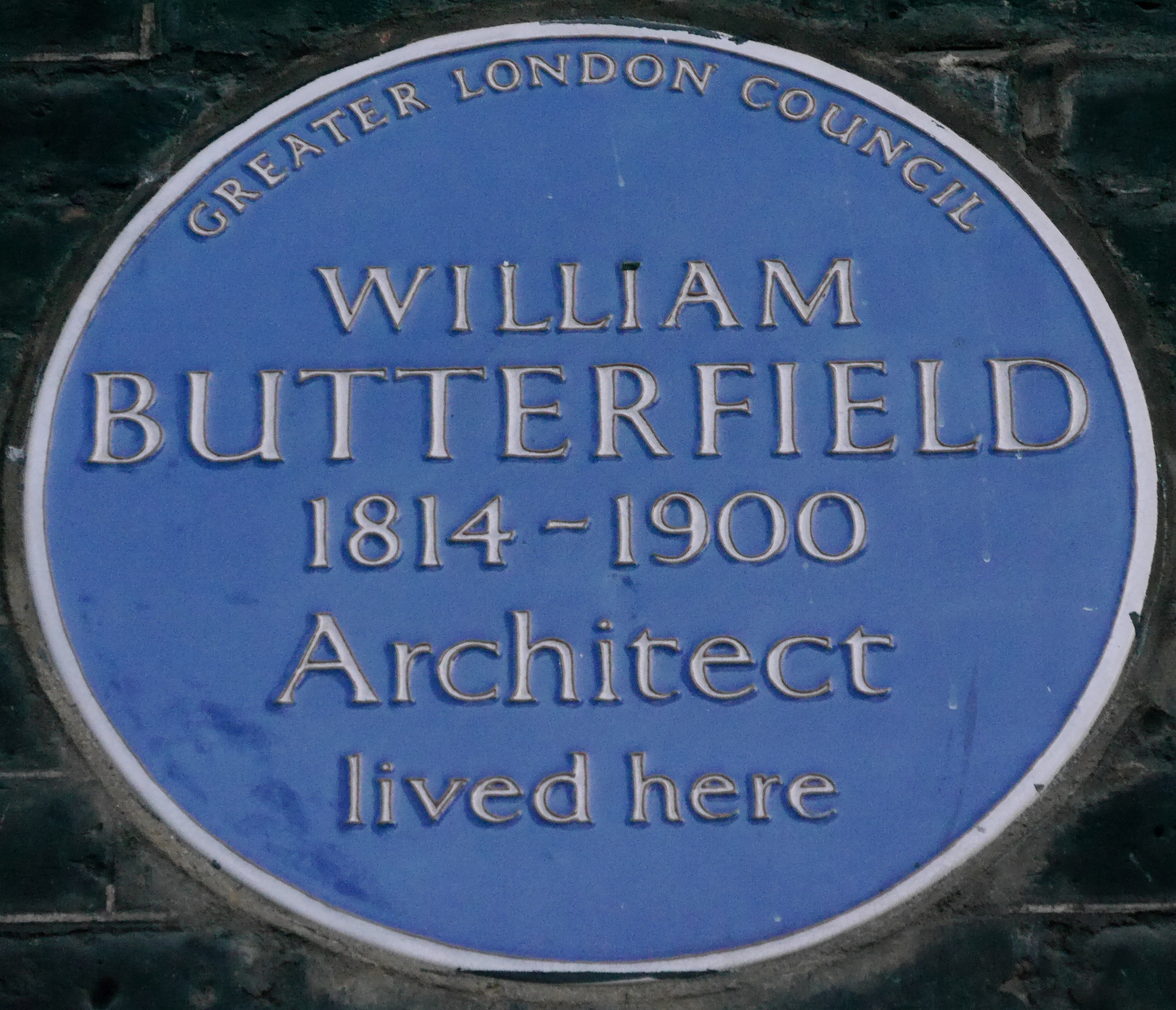 William Butterfield 42 Bedford Square blue plaque